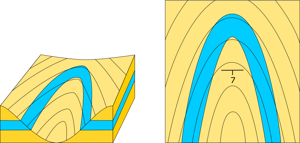 Layers inclined downstream at a lower angle than the valley gradient: they give a pattern that cuts contour lines and forms a V whose apex anomalously points upstream.